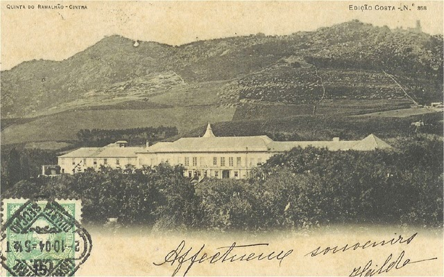 Palacio e quinta do Ramalhao em Ranholas, Sintra